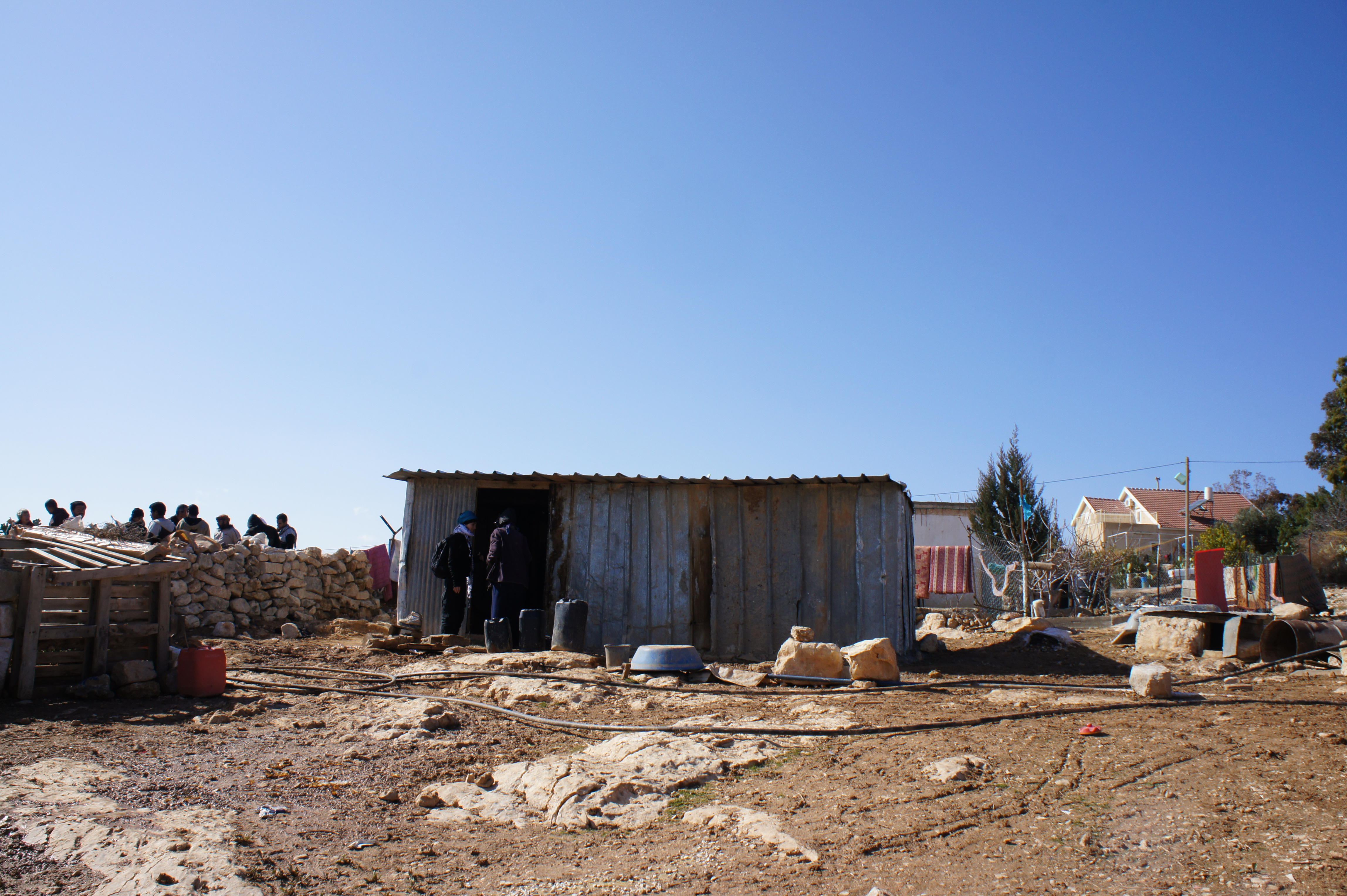 Umm al-Kheir, South Hebron Hills. To the left: the rubble of the home of a widow with 9 children, Israeli troops demolished her house on the 25th of January 2012. In the middle: the tinshack she now has to live in with her children. In the background: the illegal Israeli settlement of Karmel. and and